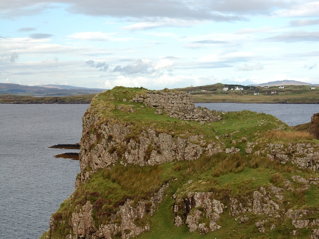 Dun Ardtreck. A view of the Dun 250463 from the south showing its precarious position on the clifftop.